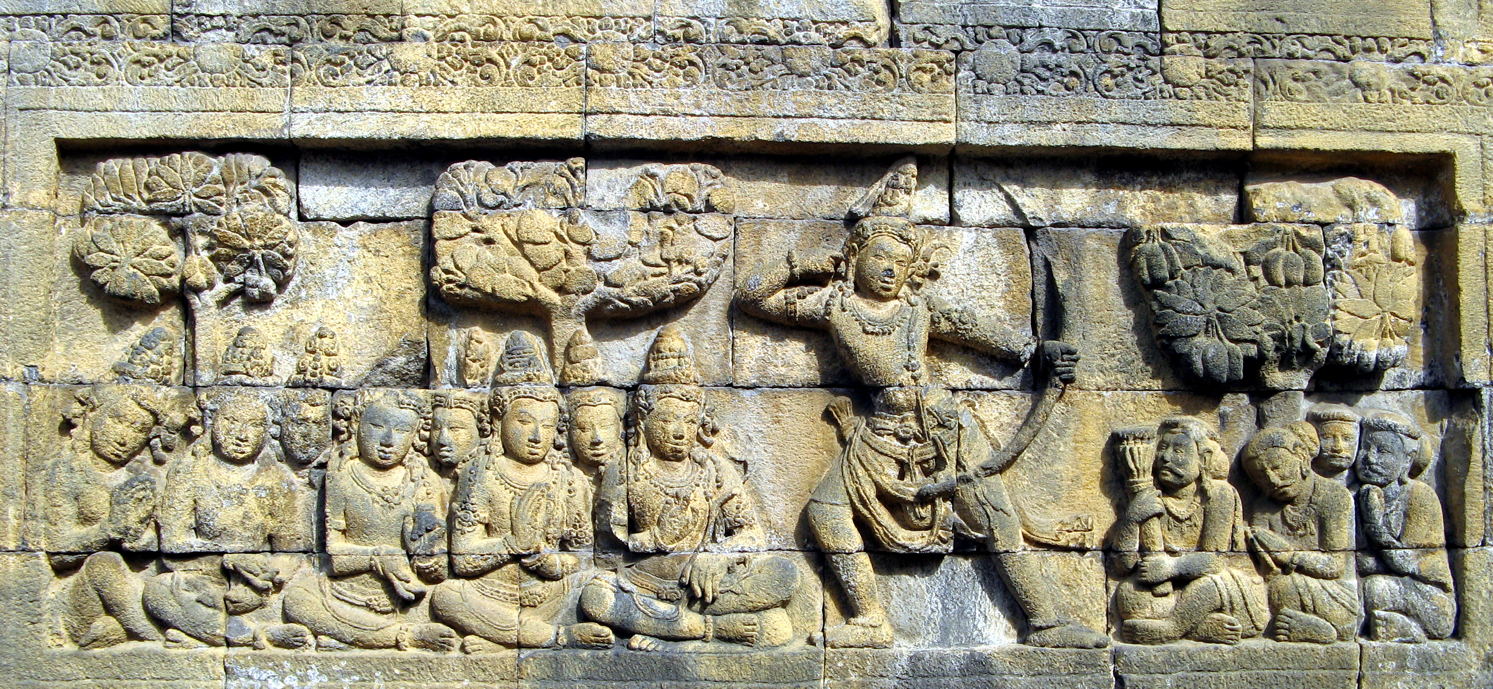 This panel is part of the same (unidentified) Avadana tale as I.b114. In this scene, a princely figure draws his bow in the presence of forest hermits on the right. The action is observed by a group of deities, with jewels and crowns, on the left.